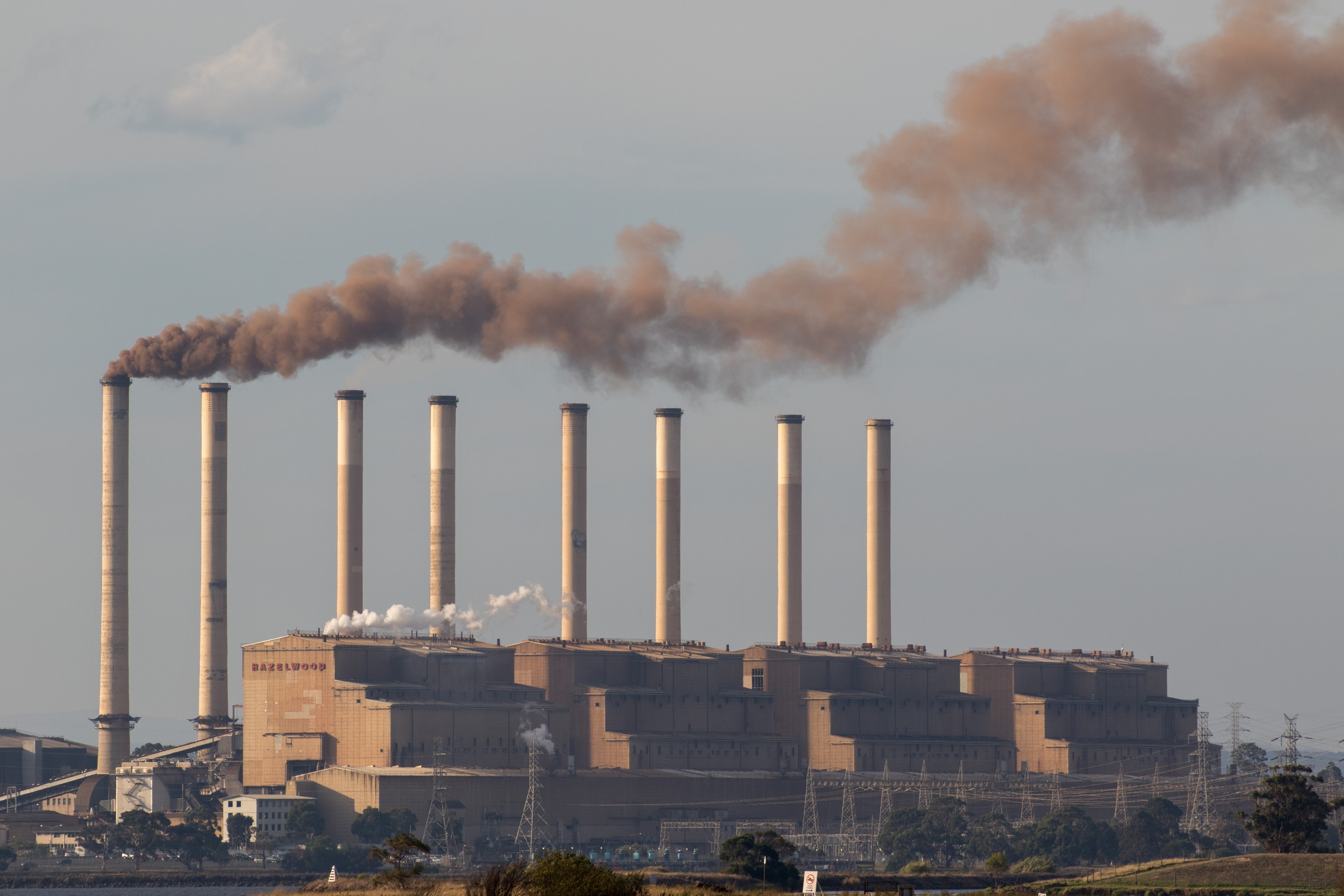 Hazelwood Power Station's final operational unit, Unit 1, being shut down for the last time before the station closes permanently.